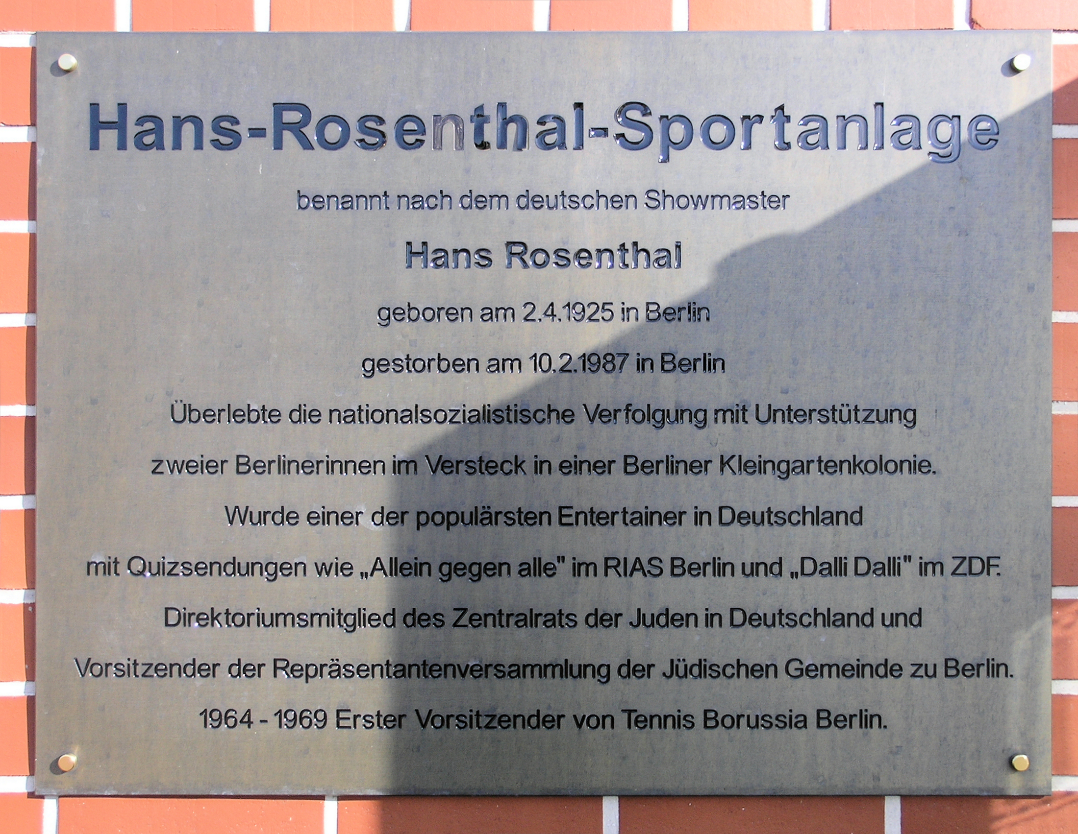 Memorial plaque, Hans Rosenthal, Kühler Weg 12, Berlin-Westend, Germany Koordinate:52°29′44″N 13°15′36″E / 52.49556°N 13.26°E